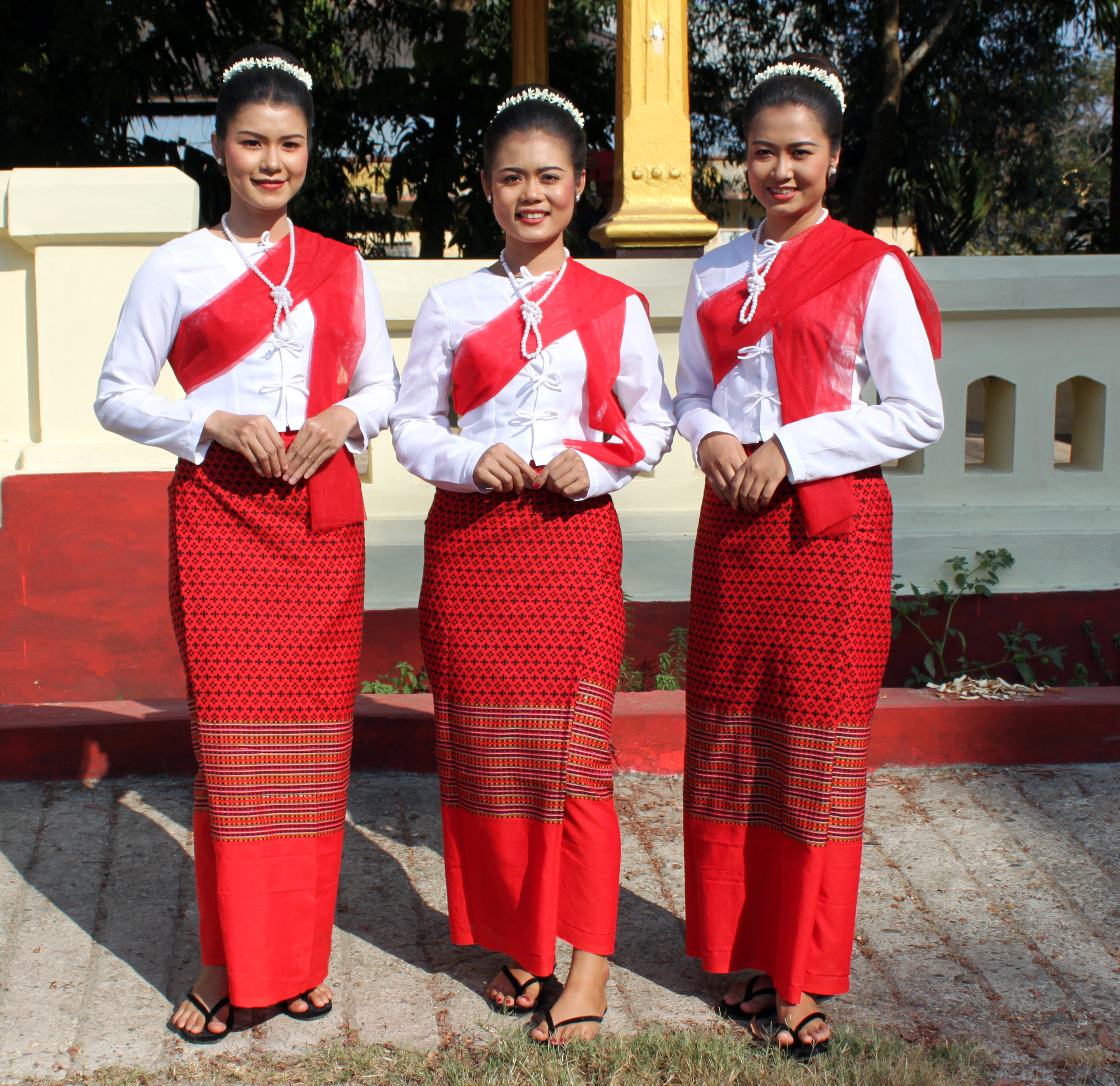 Mon Girls in Mawlamyaing, Myanmar